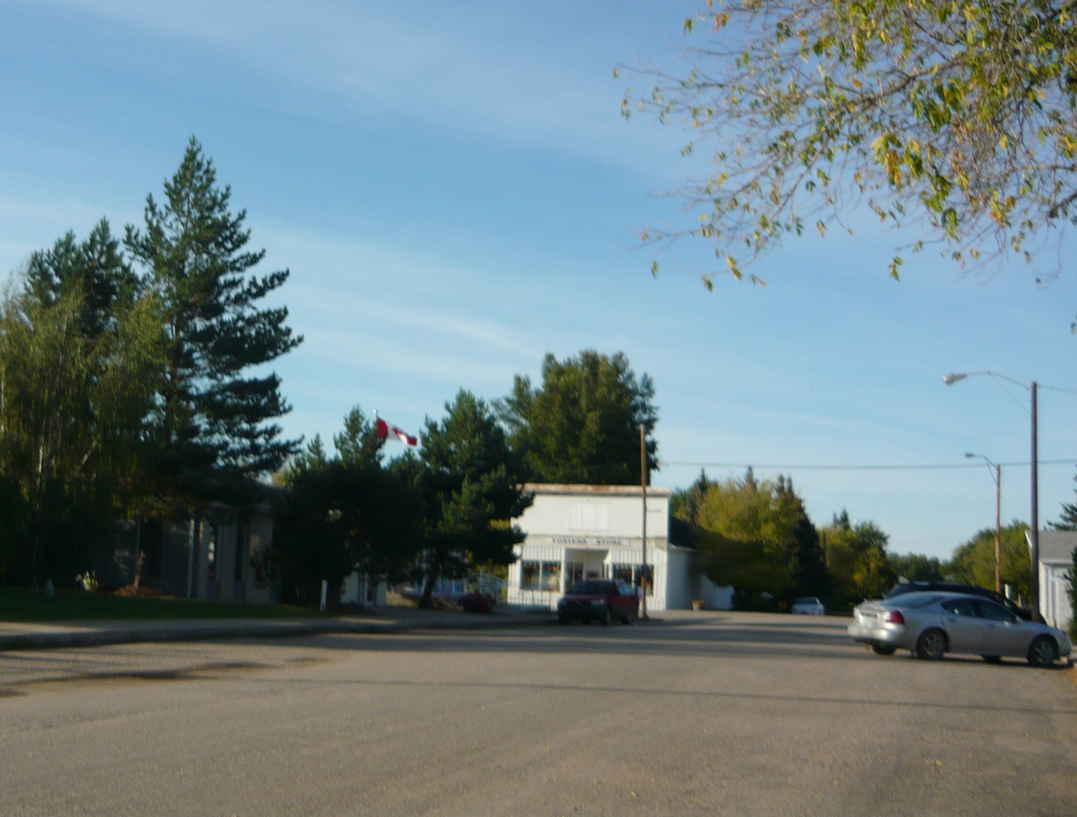 Business district of Borden, Saskatchewan, Canada. Looking northward along Shepard Street toward the intersection of Shepard Street and First Avenue. Photo taken from intersection of Shepard Street and Railway Avenue. The white building in the centre is Foster's Store (1920).